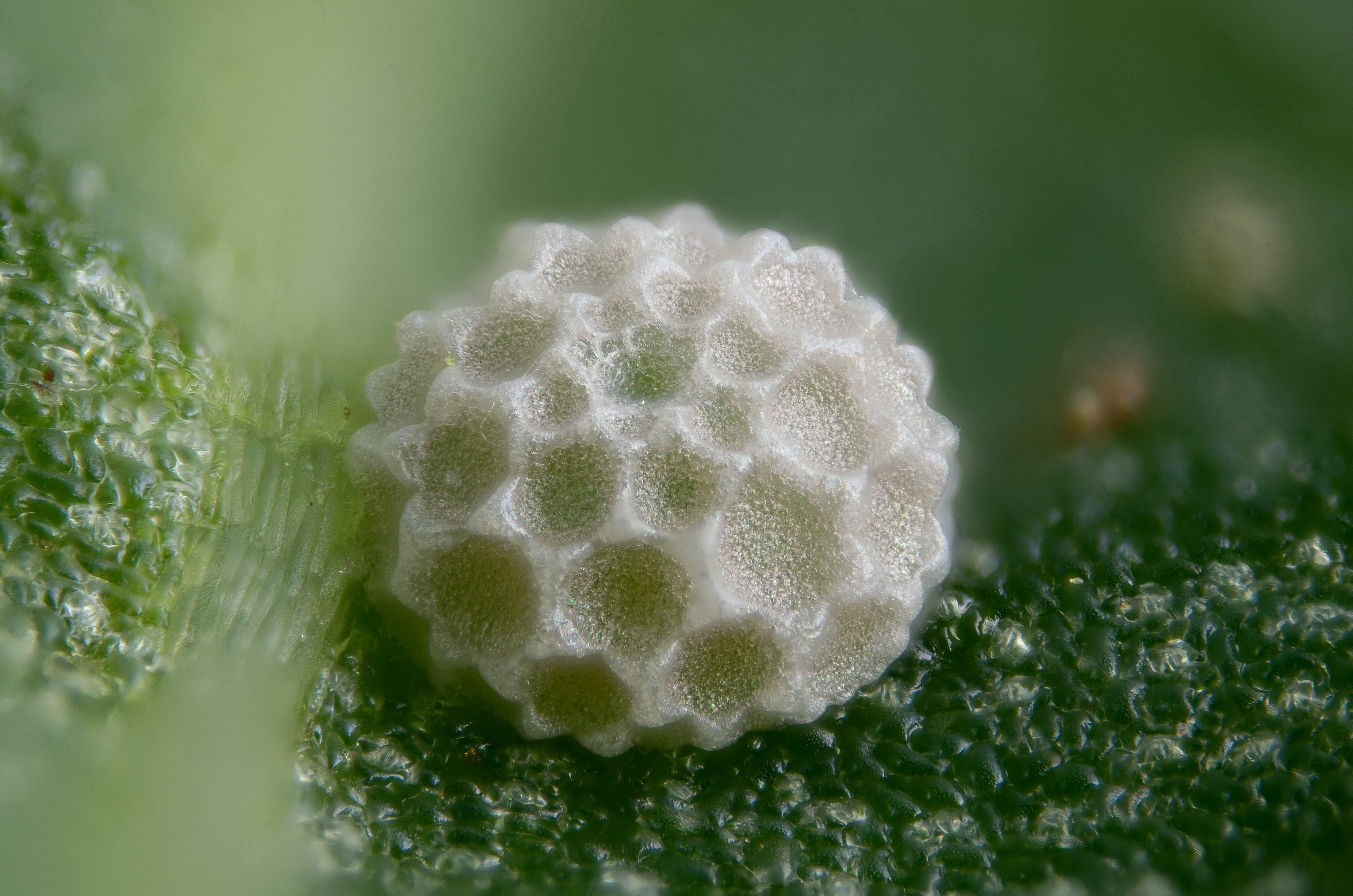 Egg of the butterfly Lycaena hippothoe on a leaf of Rumex acetosella Sacle : egg diameter ~0.5 mm Technical settings : - focus stack of 51 images - microscope objective (Nikon achromatic 10x 160/0.25) on bellow